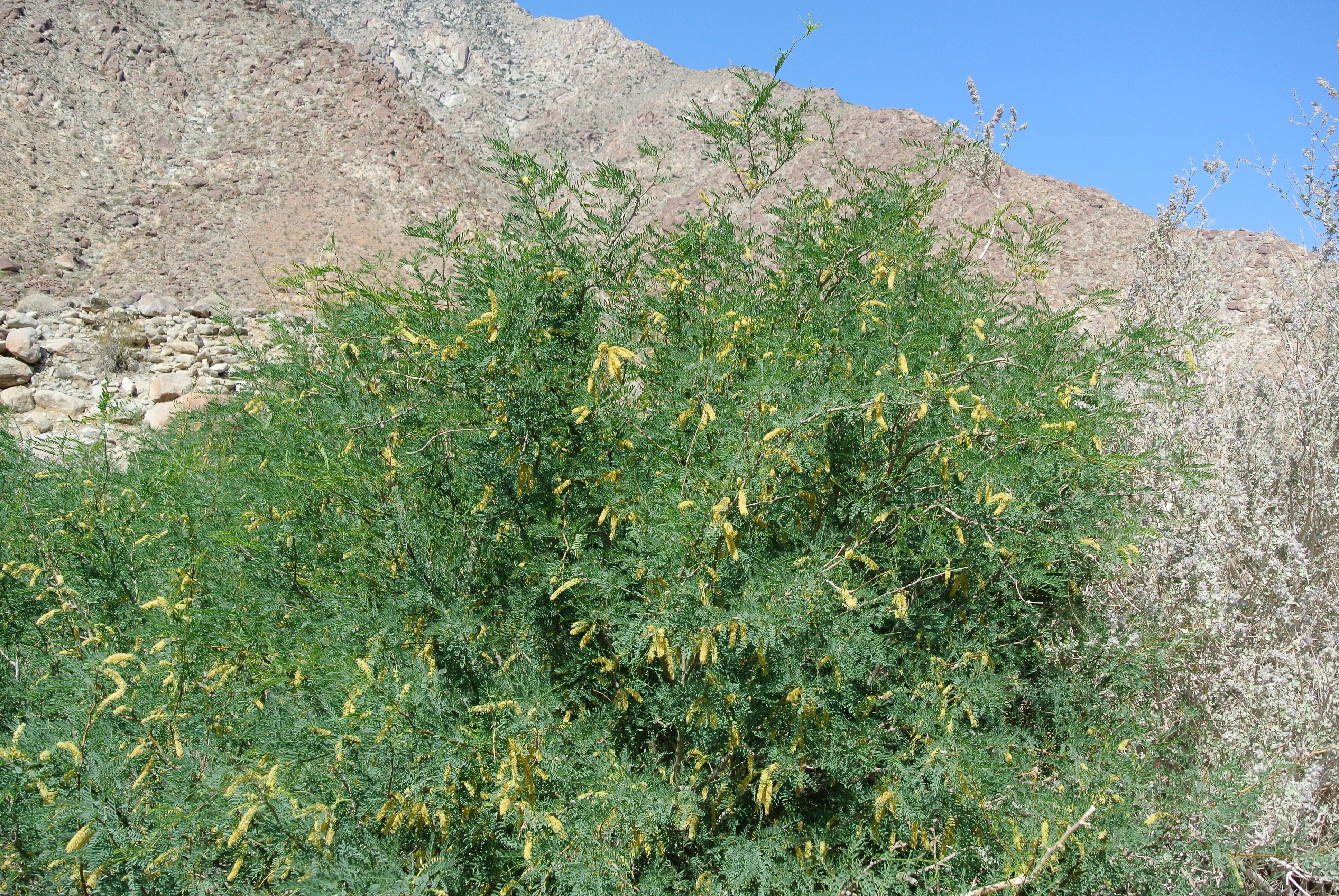 Prosopis velutina in Anza-Borrego Desert State Park (Palm Canyon).